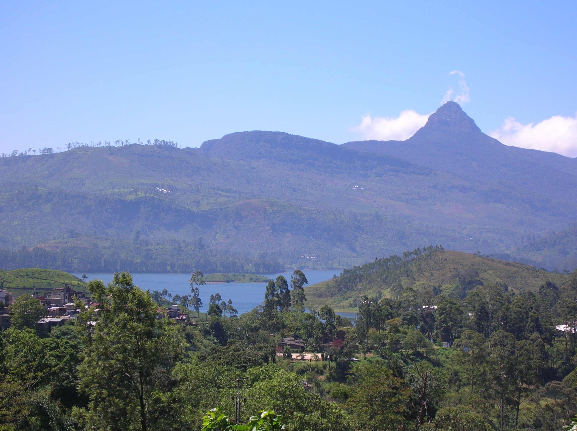 Sri Pada mountain (Adam's Peak) on the right, Sri Lanka